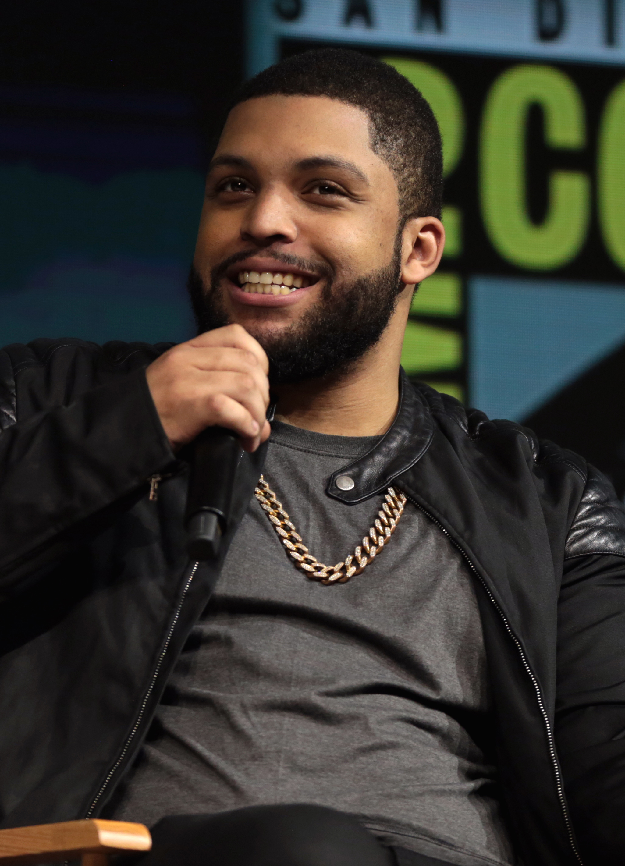 O'Shea Jackson Jr. speaking at the 2018 San Diego Comic-Con International in San Diego, California.